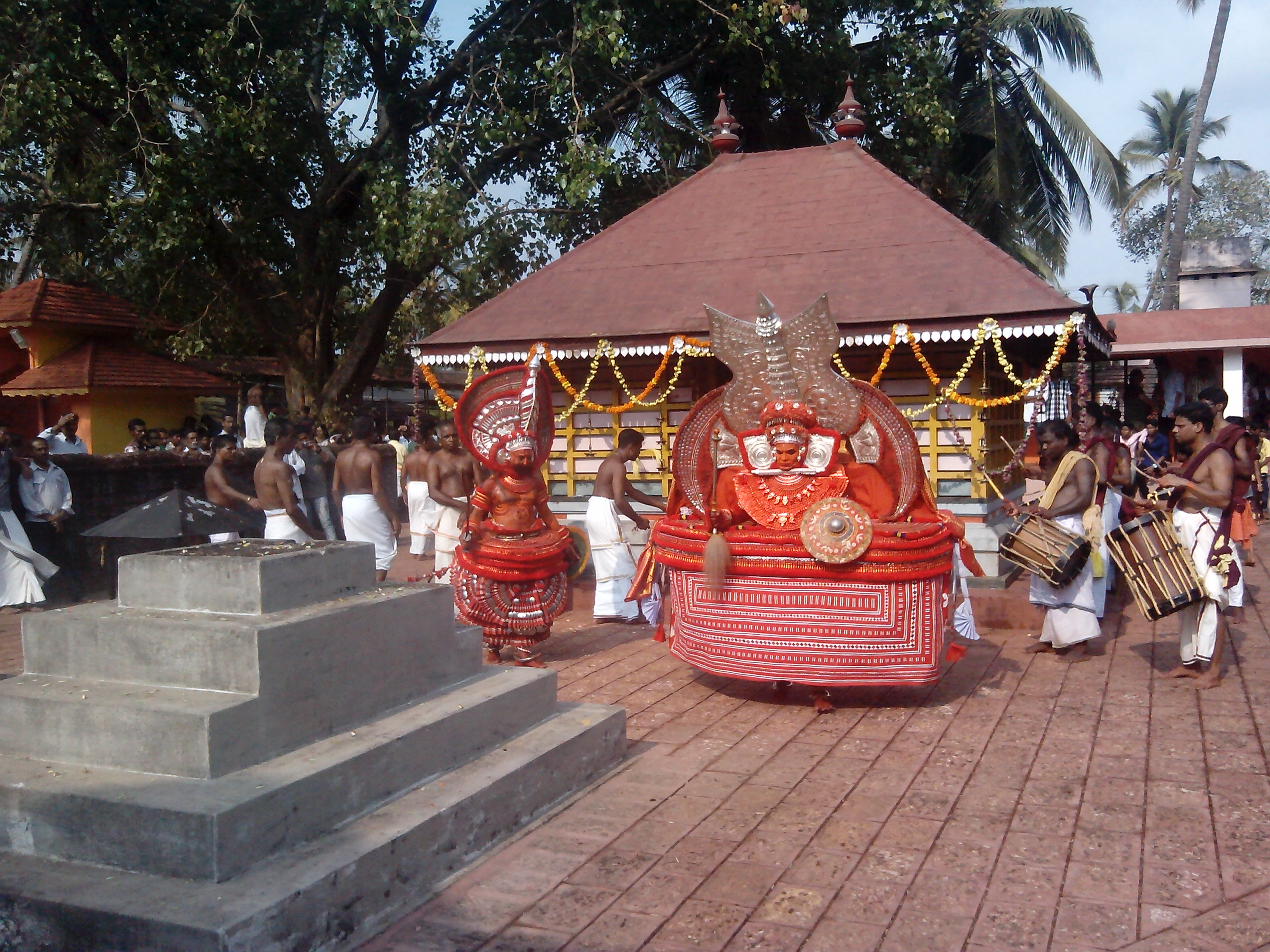 palot theyyam